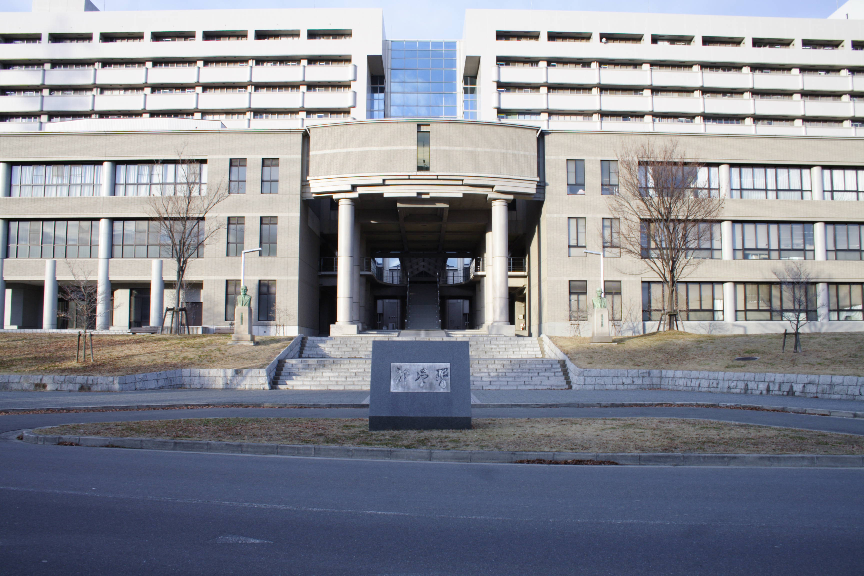 Building of Osaka_University_Faculty_of_Medicine/大阪大学医学部